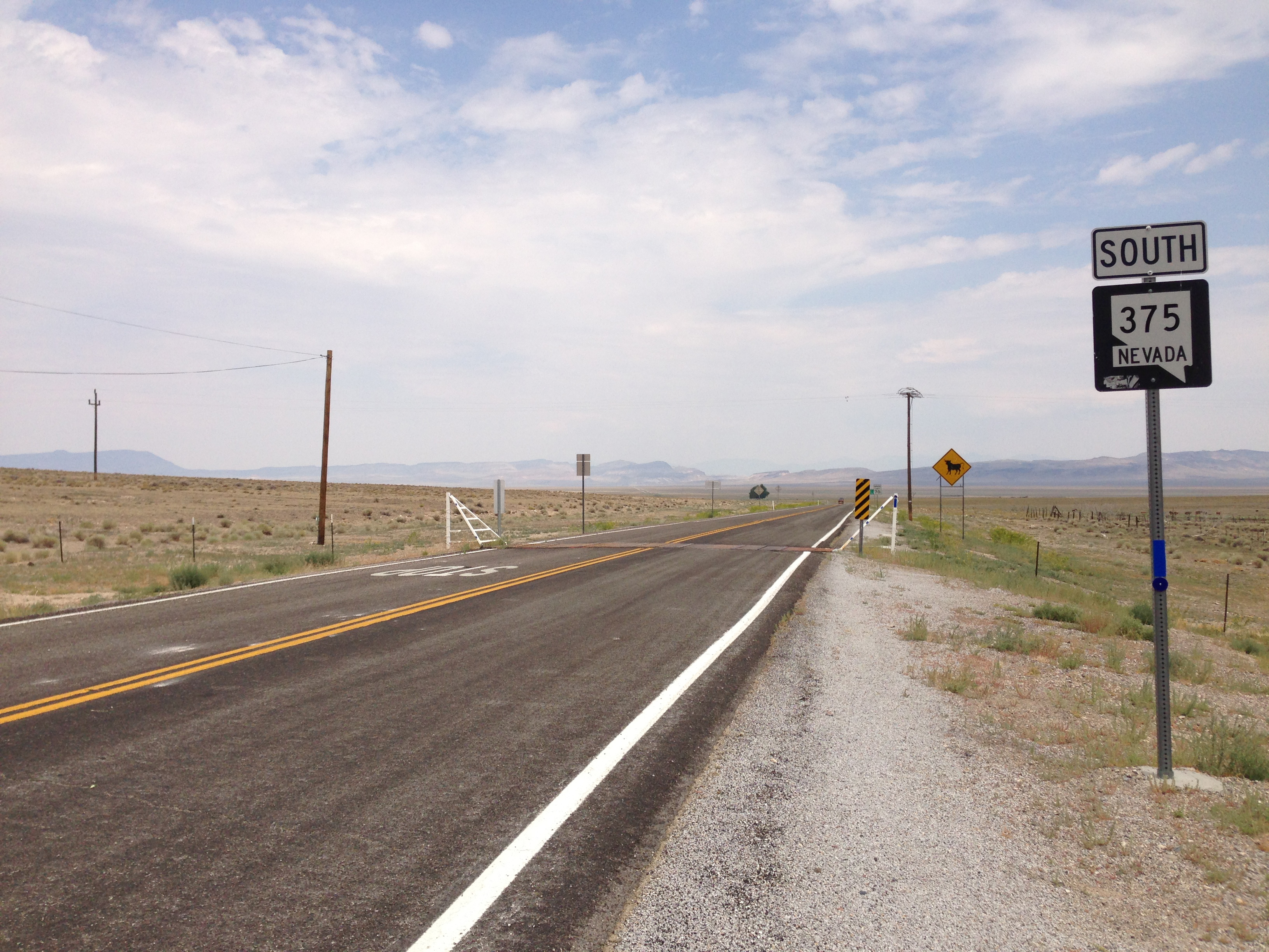 First reassurance sign along southbound Nevada State Route 375 in Warm Springs, Nevada